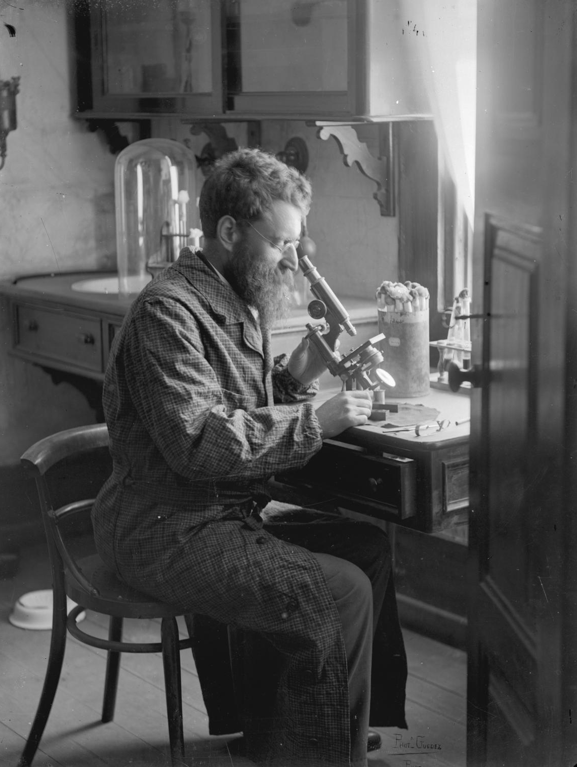 Dr. Ricardo Jorge in the Municipal Bacteriological Lab, in Oporto.